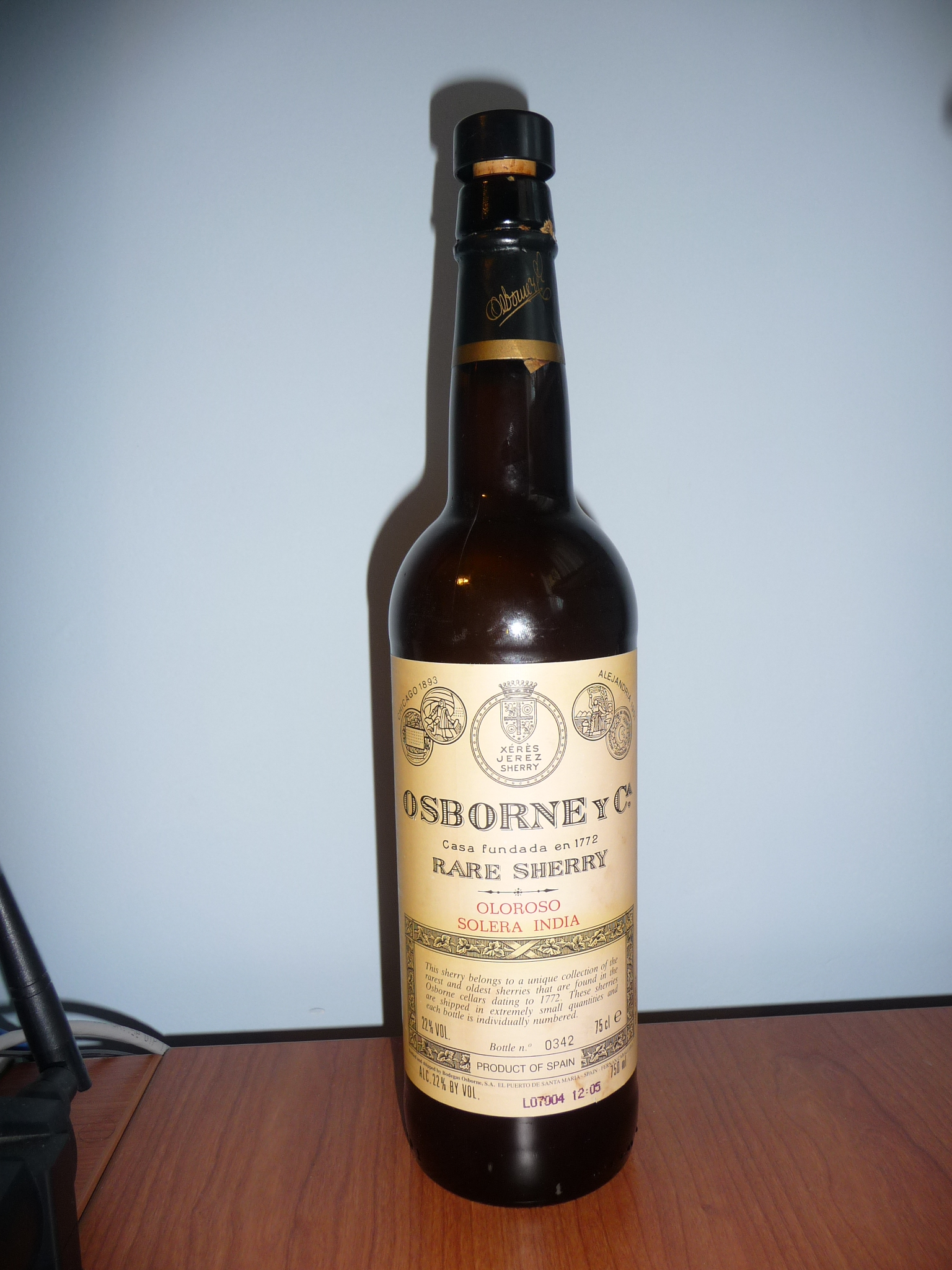 Oloroso Sherry, Solera India by Osborne. El Puerto de Santa María (Andalusia, Spain)